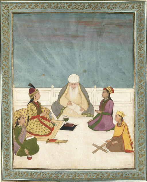 A princess practices calligraphy, c.1740 (downloaded Mar. 2008) "THE LESSON. MURSHIDABAD, MUGHAL INDIA, CIRCA 1740. Gouache heightened with gold on paper, a mullah sitting on a terrace with a grey shawl draped over his cream robes, teaches the art of calligraphy to a princess finely dressed in a gold brocade coat and seated against a gold cushion with a gold pen-case beside her, her fellow pupils sit around her, turquoise border with gold floral illumination, slight staining, mounted, framed and glazed. 6½ x 5 1/8in. (16.4 x 13cm.)"